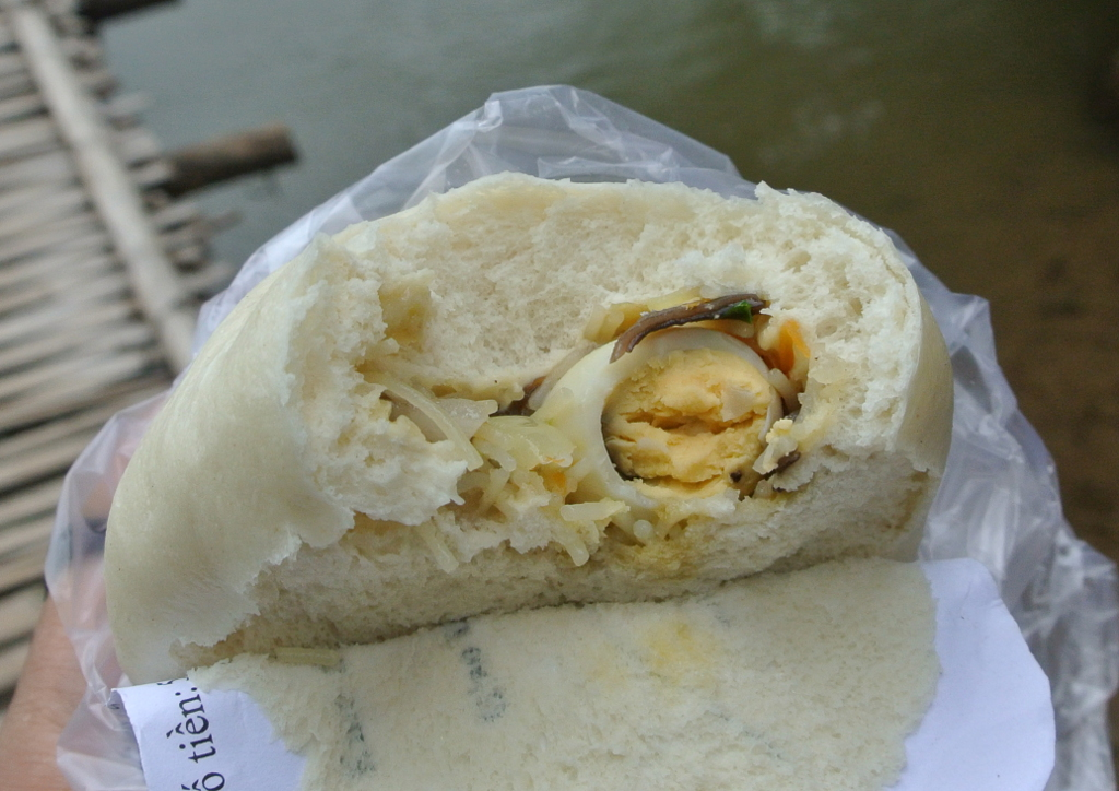 Vietnamese Baozi "Banh Bao" (at Tay Son district Binh Dinh province Vietnam.jpg